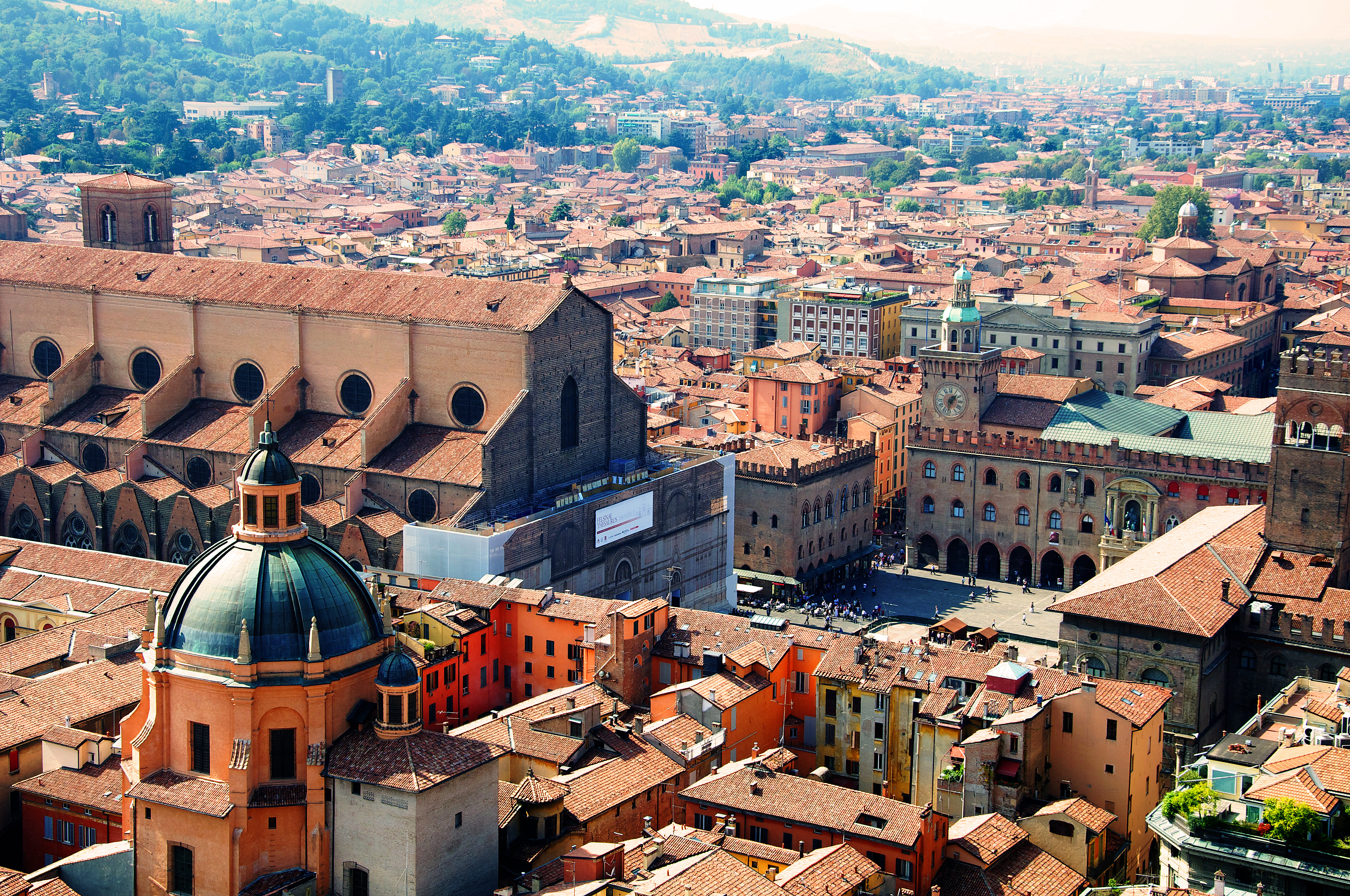 San Petronio, Piazza Maggiore and Palazzo d'Accursio, photo taken from the top of Torre degli Asinelli, Bologna, Italy.